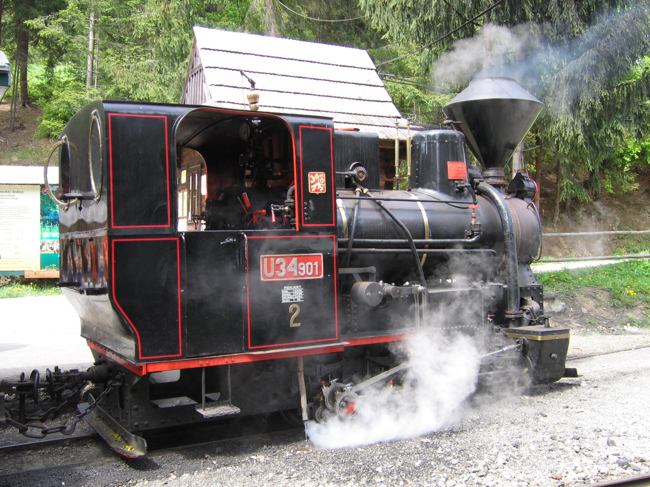 Steam locomotive MÁV U34.901 (2282/1909) built in 1909. Gauge 760 mm